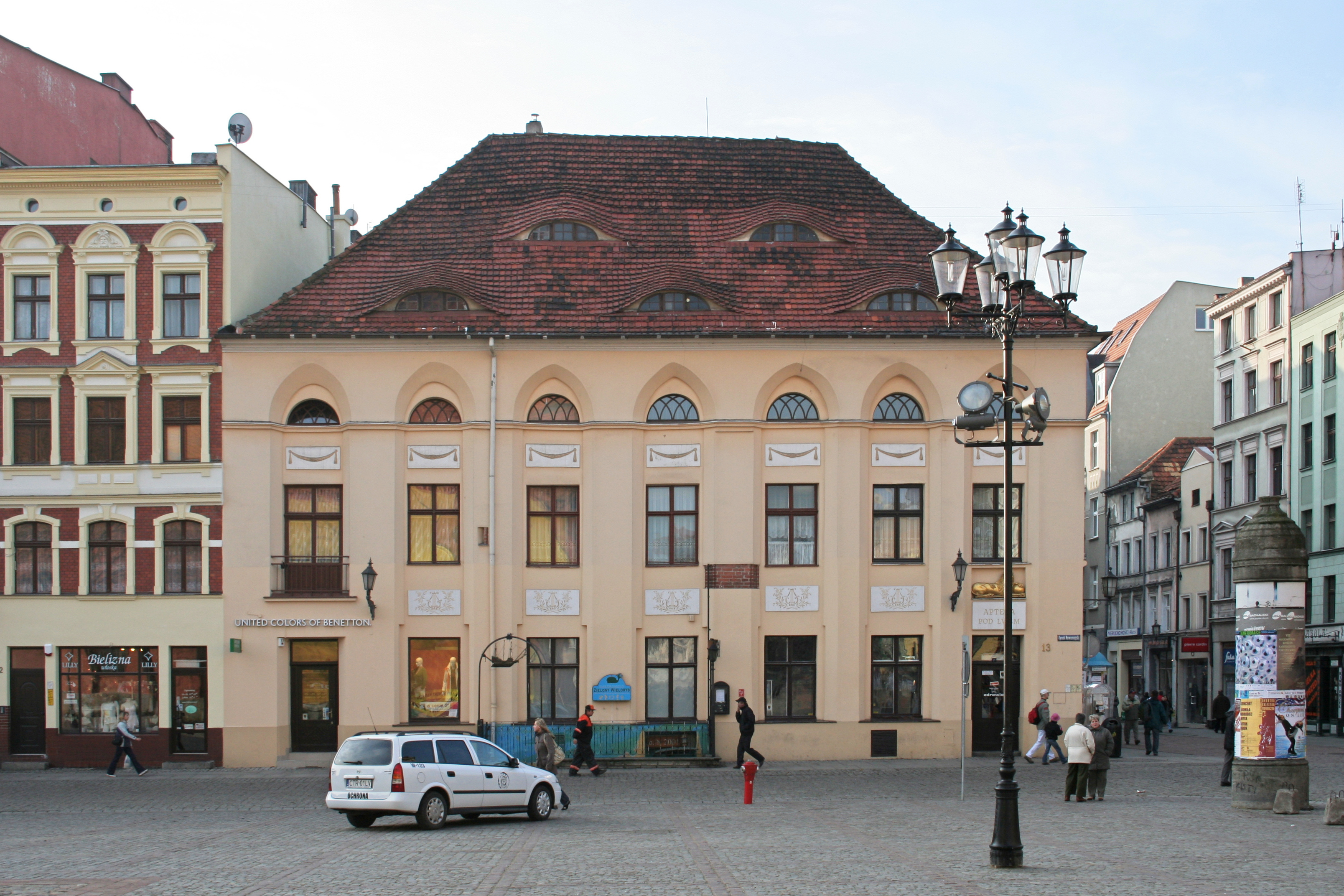 Toruń, house at Rynek Nowomiejski 13 (Golden Lion Chemist's)